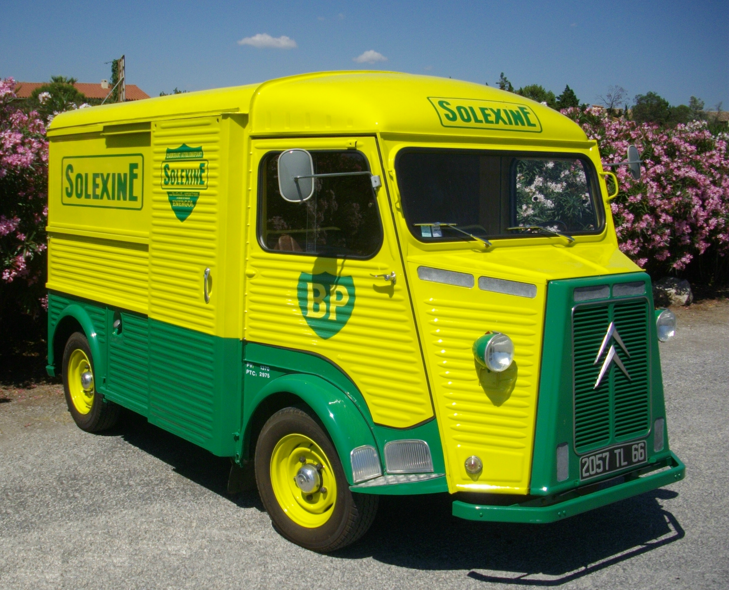 Citroën Type HY, built 1967, seen in Canet-Plage, France